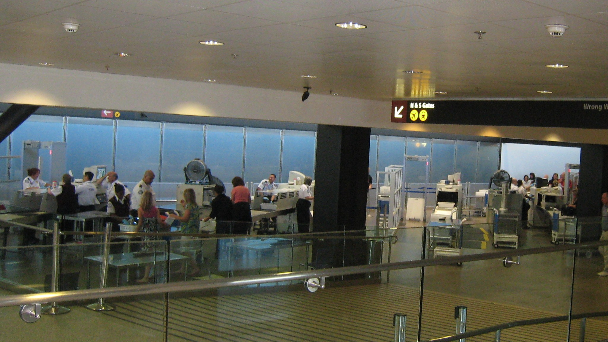 Security checkpoint at Seattle Tacoma (SeaTac) International Airport